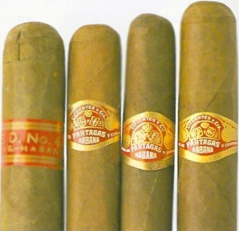 Partagás four famous vitolas together